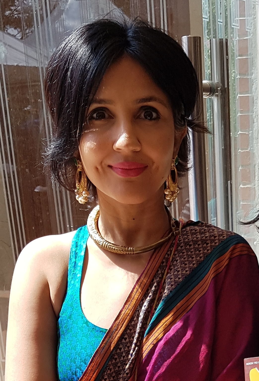 Anuja Chauhan at the Bangalore Literature Festival in December 2017